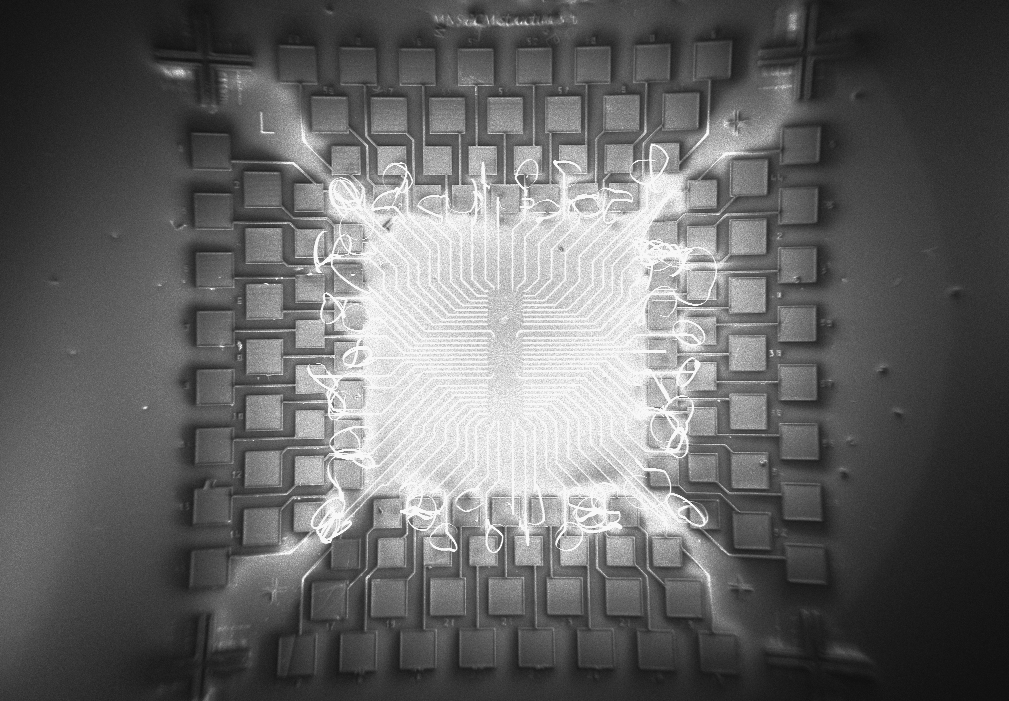 Scanning Electron Microscopy image of a die with Carbon Nanotubes based Field Effect Transistors to be fabricated. Image obtained during one of the fabrication steps, after hydrofluoric (HF) acid wet etching and SF6 based Inductively Coupled Plasma dry etching steps. Glowing structures in the middle are charged photoresist residues. In this chip design each square test pad represents transistor's source or drain electrodes, across which single-walled Carbon Nanotube will be suspended during the subsequent fabrication stages. Scale: the width of the outermost square test pads is 150 micrometers. SEM image and fabrication by Aidar Kemelbay (NLA, Nazarbayev University), with the help of Dr. Emine Cagin (NTB Buchs, Switzerland) performed at FIRST - Center for Micro- and Nanoscience, ETH Zurich. Photolithography mask design - Dr. Kiran Chikkadi (ETH Zurich, MNS group).